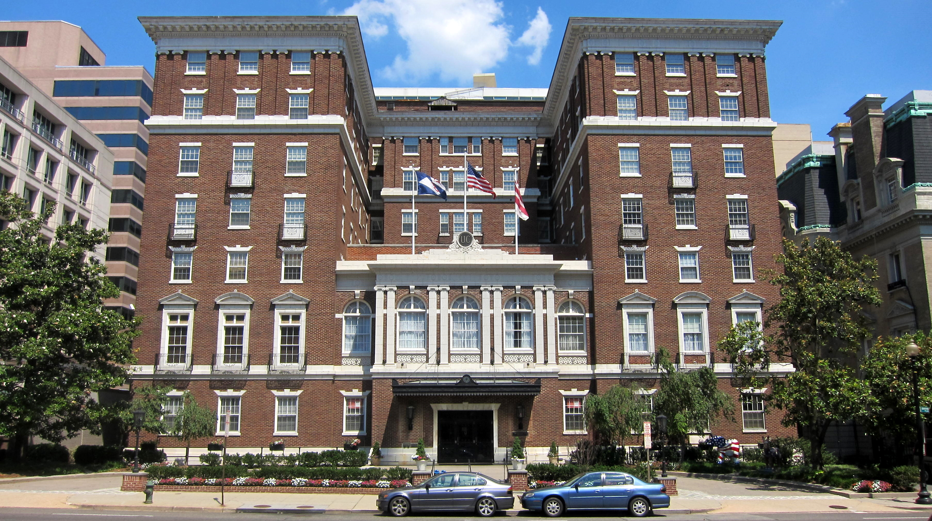 The University Club located at 1135 16th Street, N.W., in downtown Washington, D.C. Built in 1920 as the Racquet Club of Washington, the Colonial Revival clubhouse is designated as a contributing property to the Sixteenth Street Historic District, listed on the National Register of Historic Places in 1978.